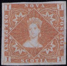 A stamp of Nova Scotia, 1 d red-brown, 1853 sub-issue, Chalon head. Printed by Perkins, Bacon & Co..